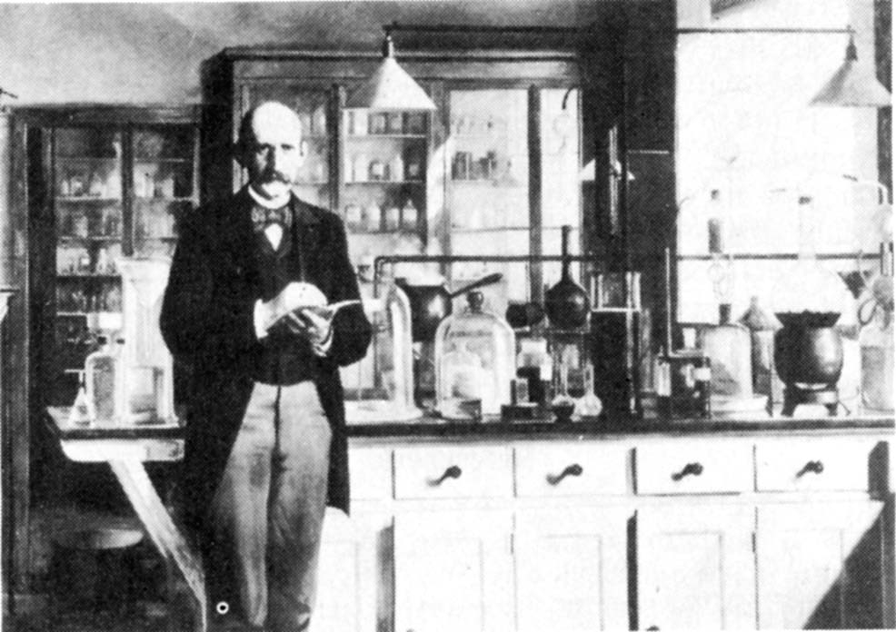 Danish chemist Johan Kjeldahl (1849-1900) painted by Otto Haslund (1842-1917); Original color painting located in the boardroom of the Carlsberg Laboratory in Copenhagen